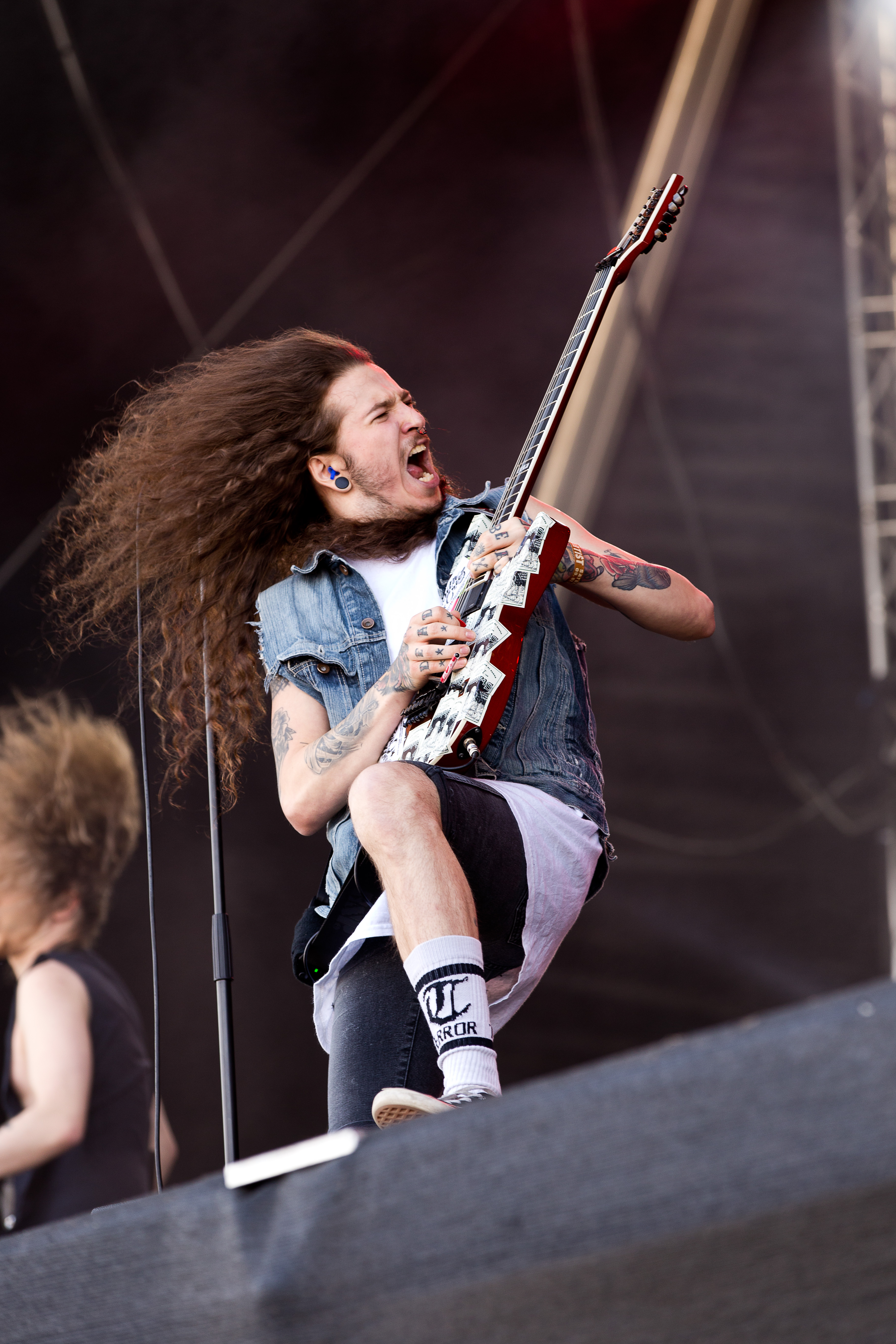 The Finnish thrash band Lost Society at the Rockharz Open Air 2016 in Ballenstedt/Germany.